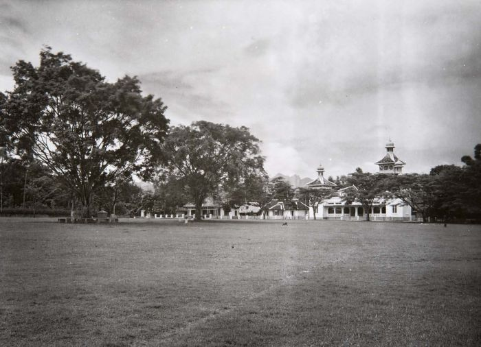 Alun-alun and mosque